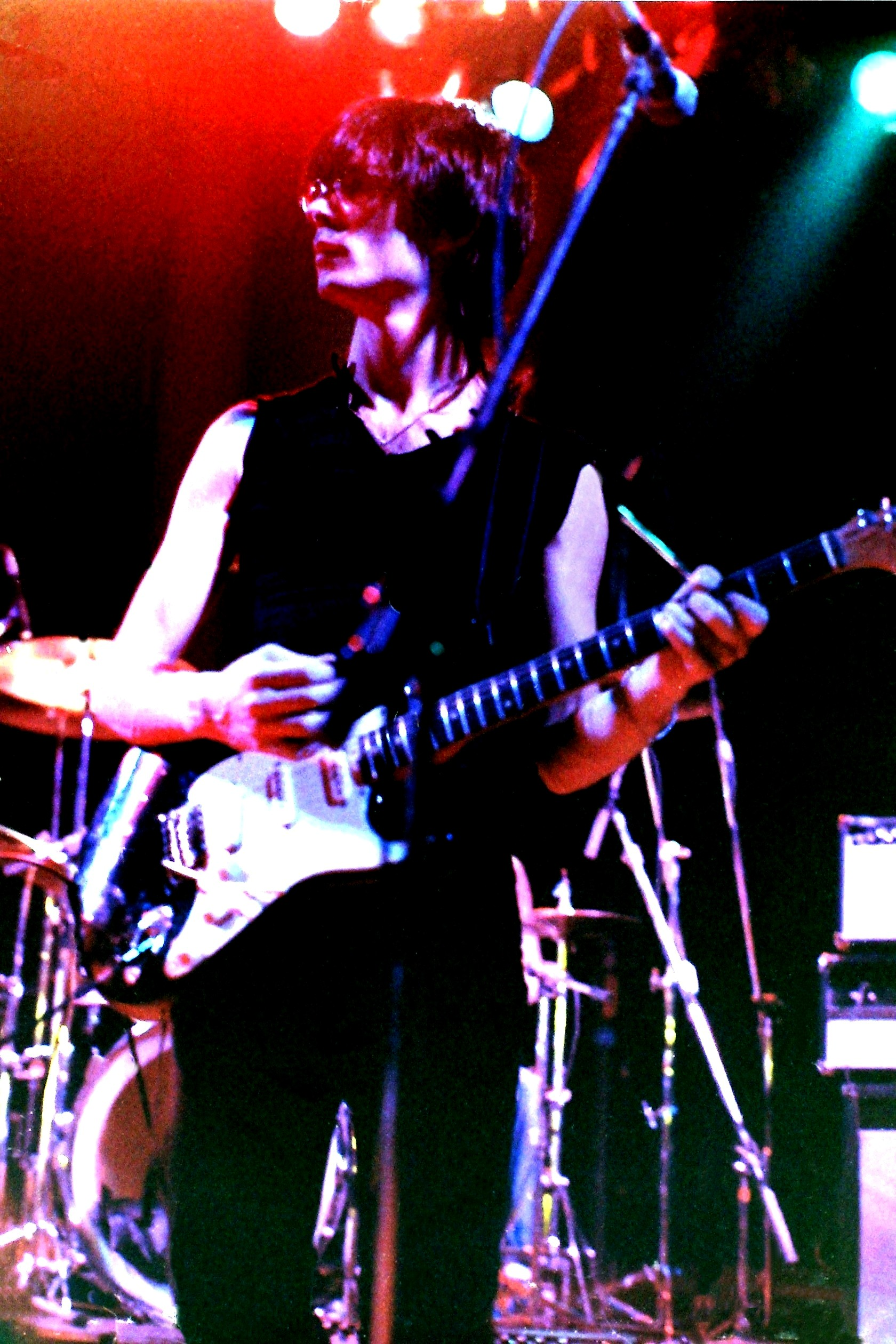 1978 - 13 - Lenny Kaye playing guitar with the Patti Smith Group